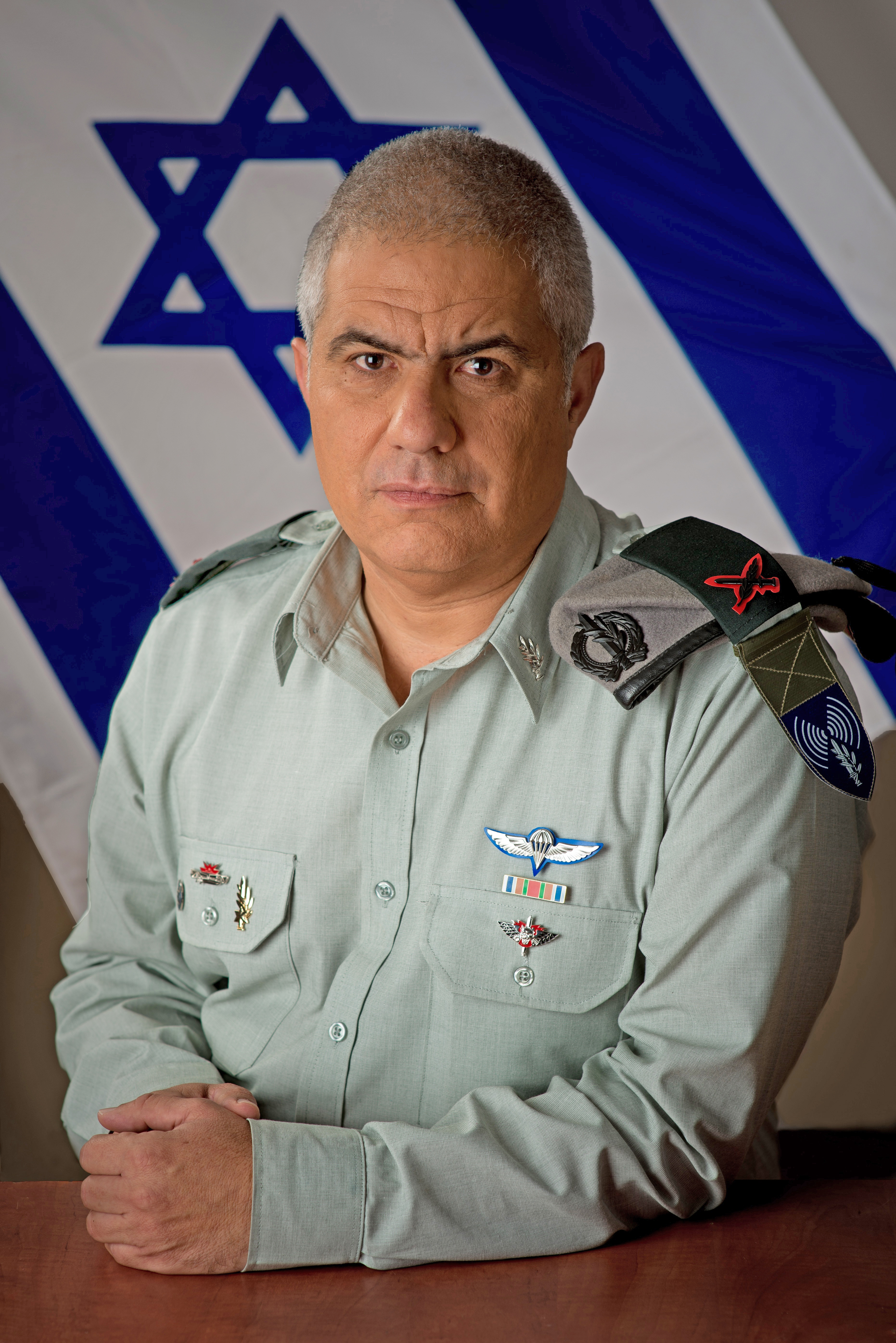 Brigadier General Moti Almoz, Israel Defense Forces Spokesperson and a combat engineer